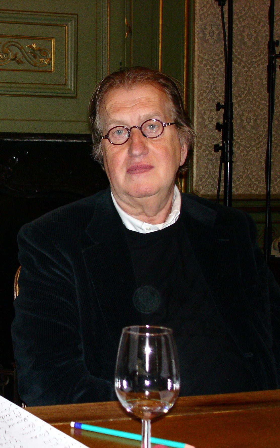 Dutch author Gerrit Komrij at the Groot Dictee in The Hague.